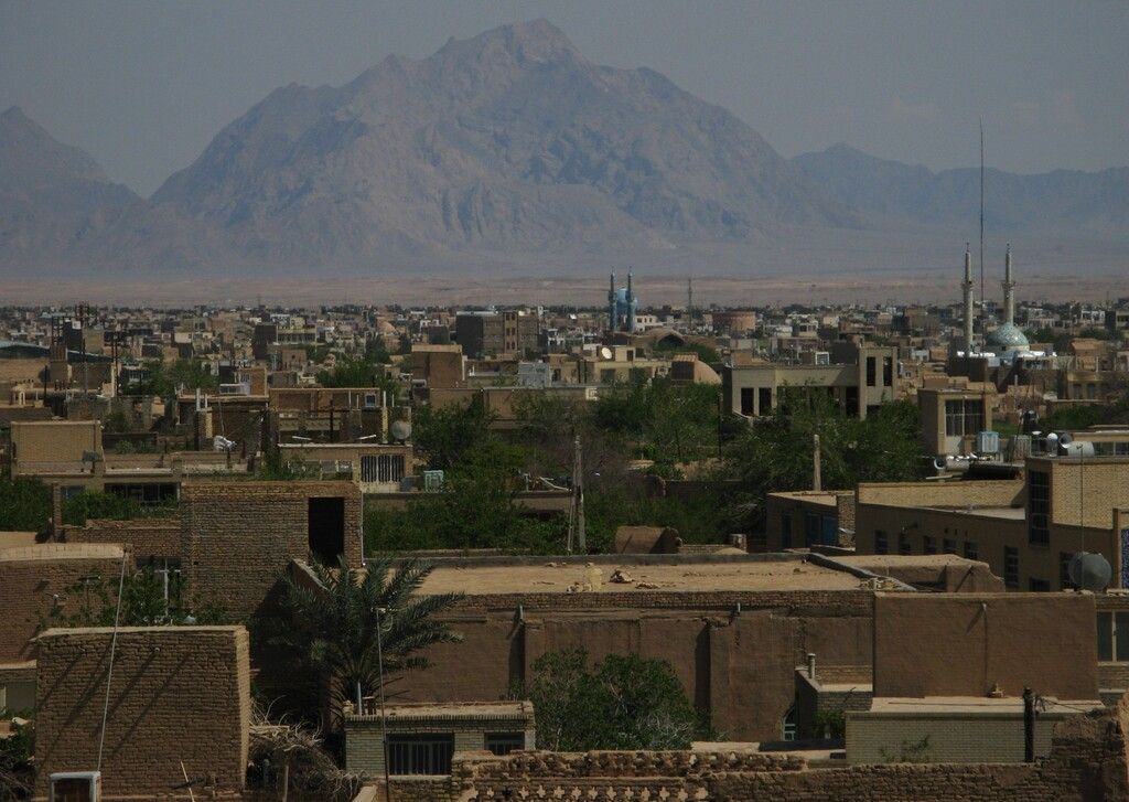 Meybod, view from the castle. Yazd province.